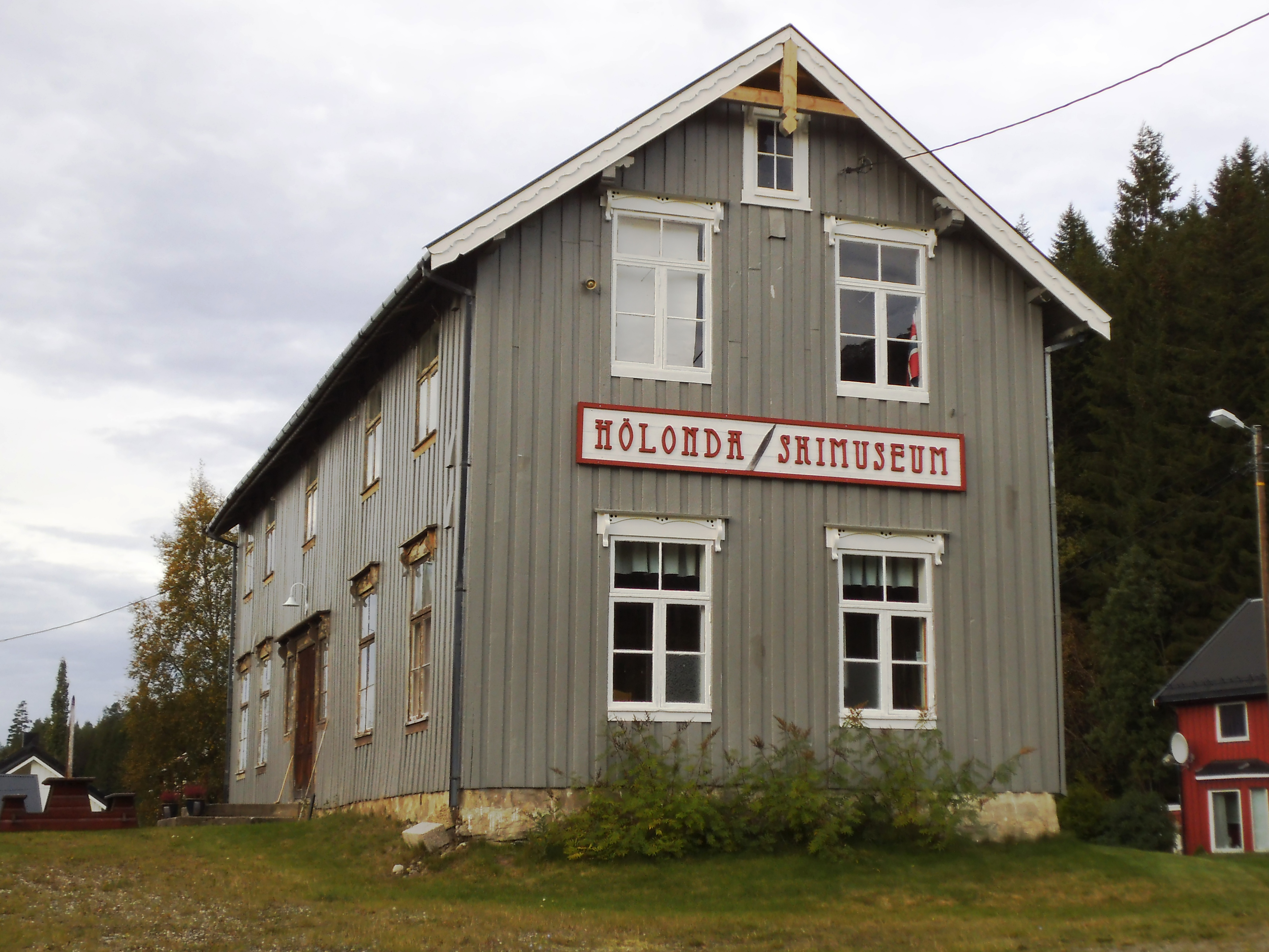 A ski-museum located in Gåsbakken, Melhus.